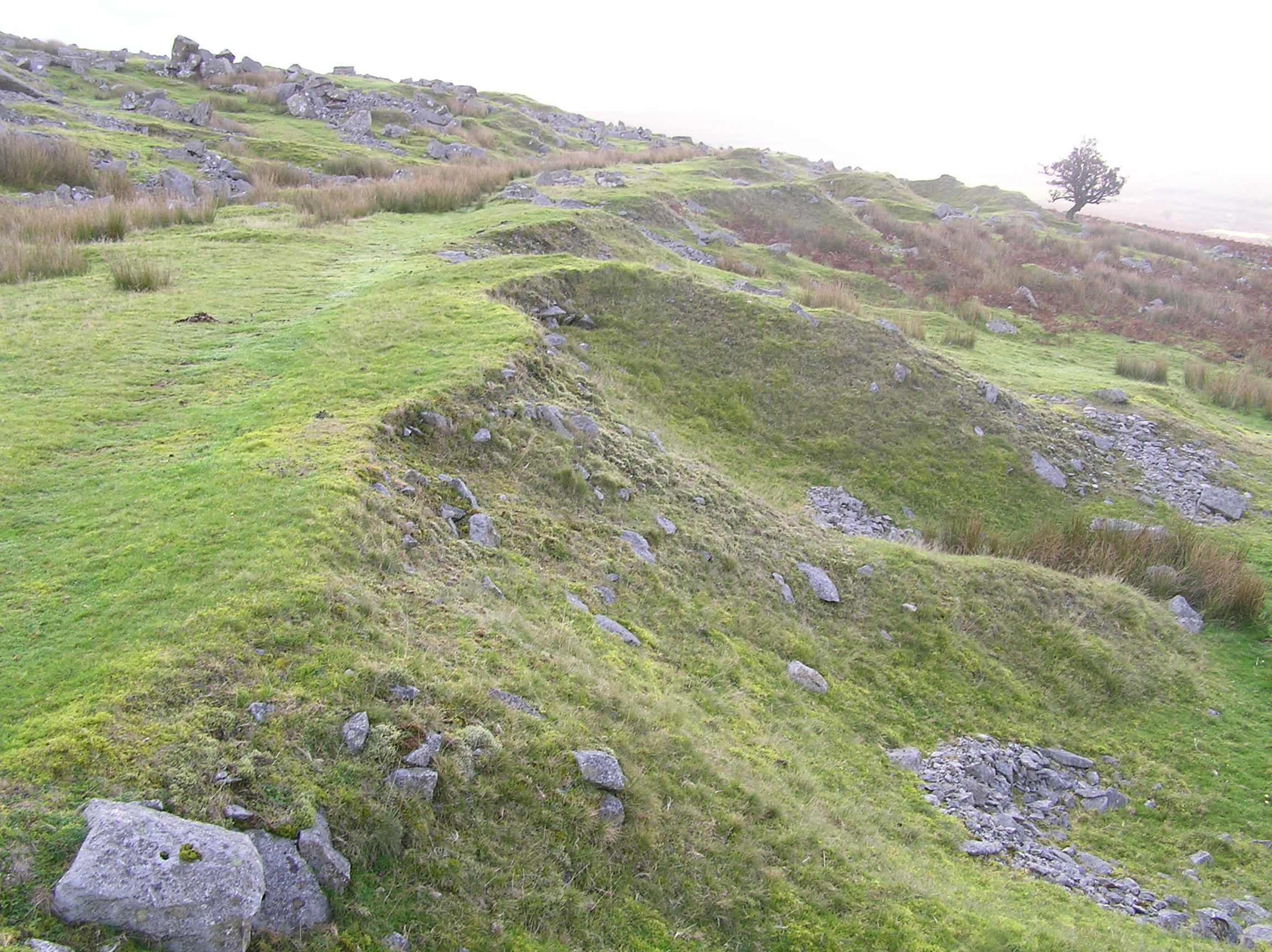 On Plymouth & Dartmoor Railway England Swelltor